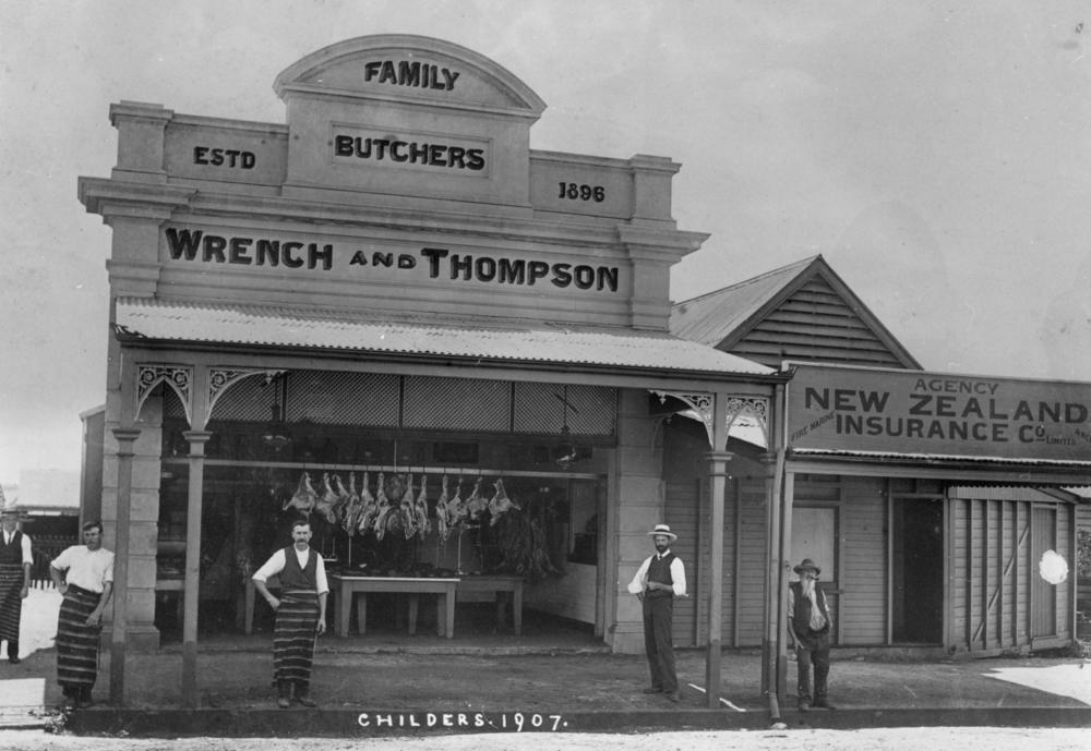 Wrench and Thompson butchers shop in Childers, 1907 Proprietors and staff outside the butchers' premises.